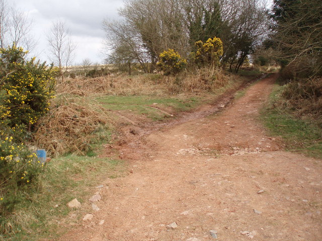 Rodhuish Common The main track runs south, the grassy path goes east towards the hamlet of Rodhuish.